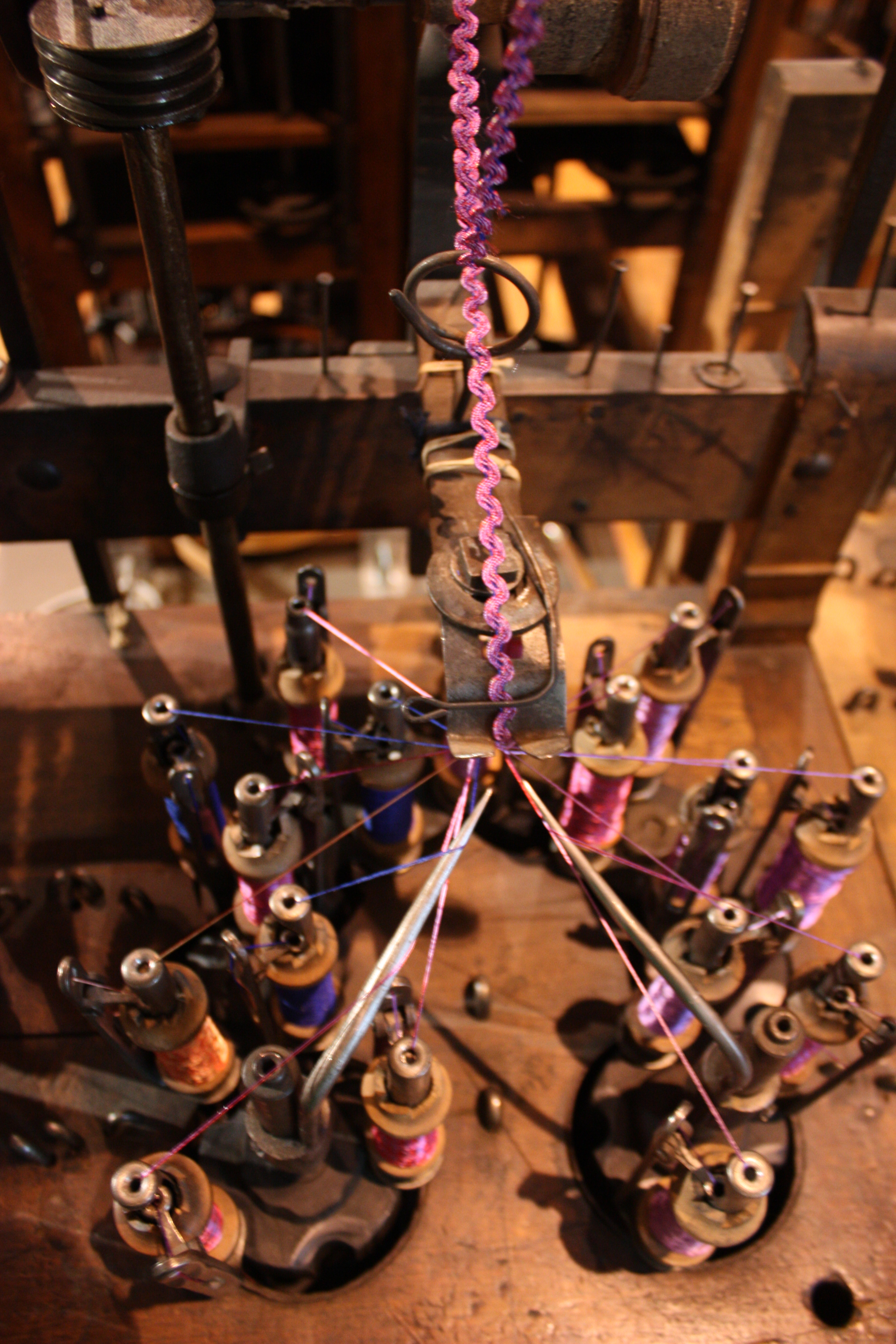 A 19th century industrial loom !!Attention No loom but a braiding machine!! making ricrac. Museum of Crafts and Industry, St. Etienne, France.